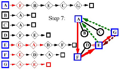 Dry run Depth-first search Algorithm in Graph, step 7